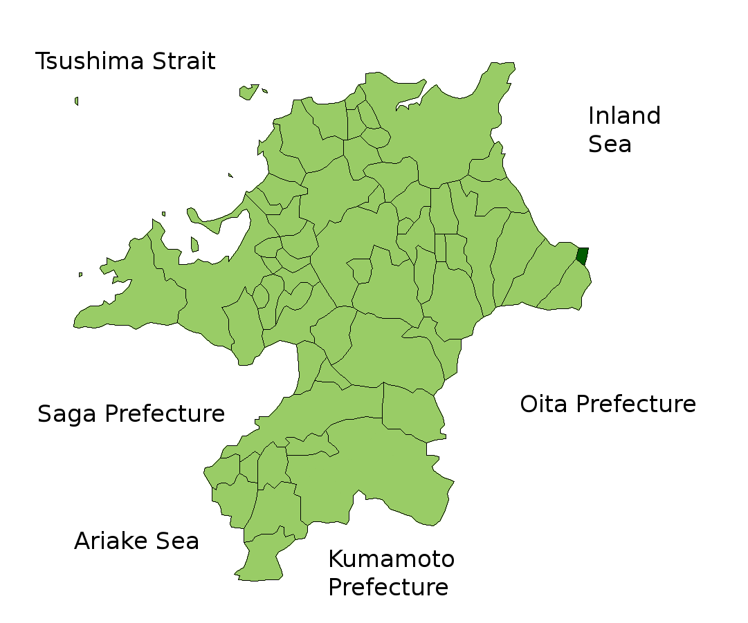 Location Map of Yoshitomi in Fukuoka Prefecture, Japan